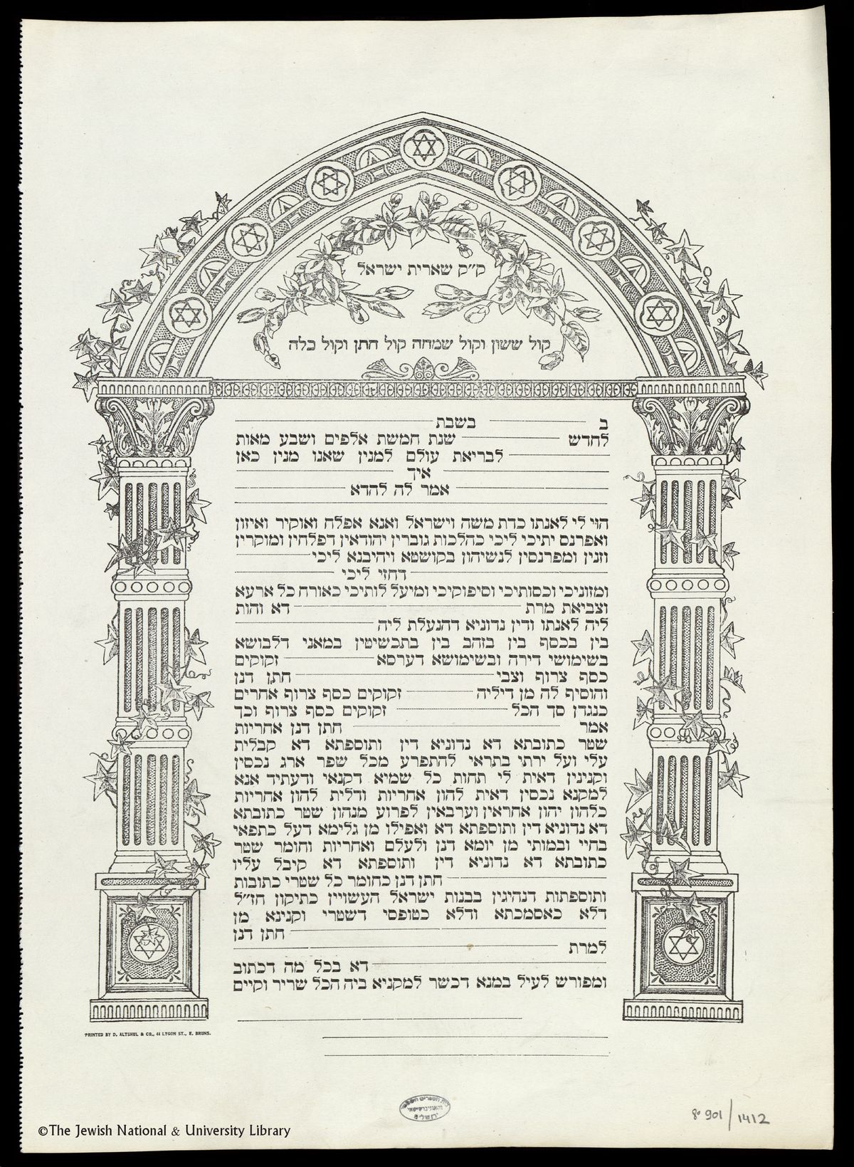 Ketubah from The Ketubbot Collection of the National Library of Israel